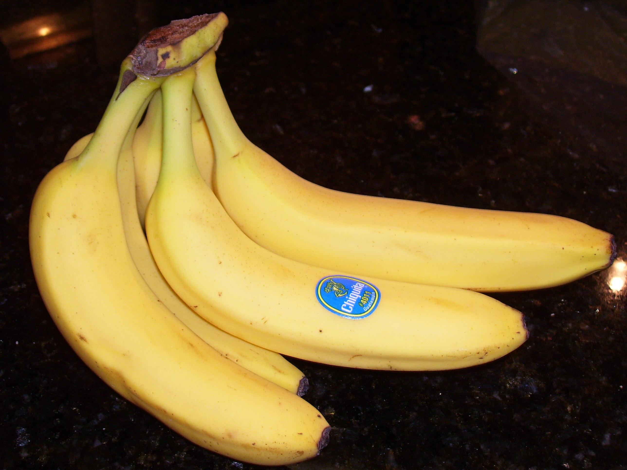 This is a picture of bananas on a countertop.